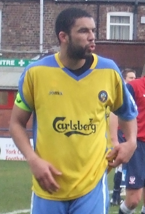 Ian Simpemba.